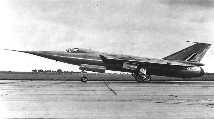 Jacques Trempe collected aircraft photos that were sent by government agencies, aircraft manufacturers and the like from childhood. The photo in question was taken by a member of the British government and intended for use as a promotional piece in the 1950s.